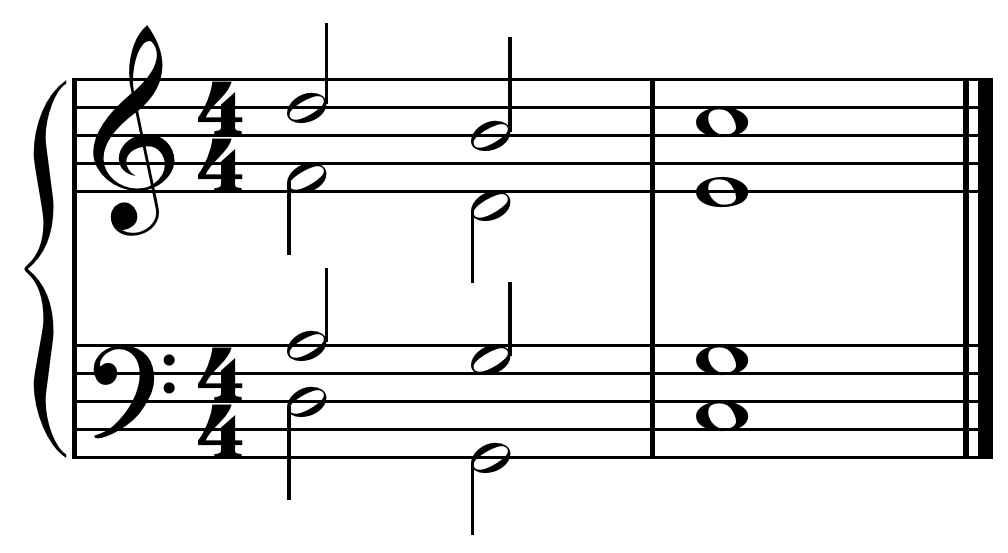 ii-V-I turnaround in C, in four-part harmony.